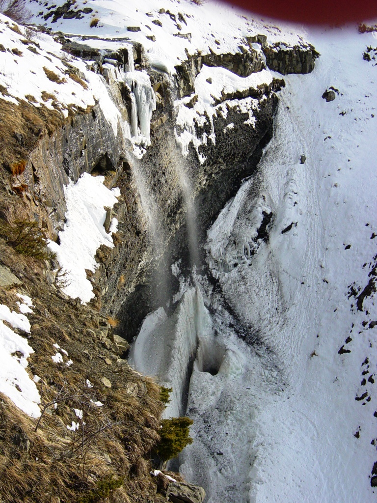 Waterfall at Gramos mountain, Northern Greece and Albania.